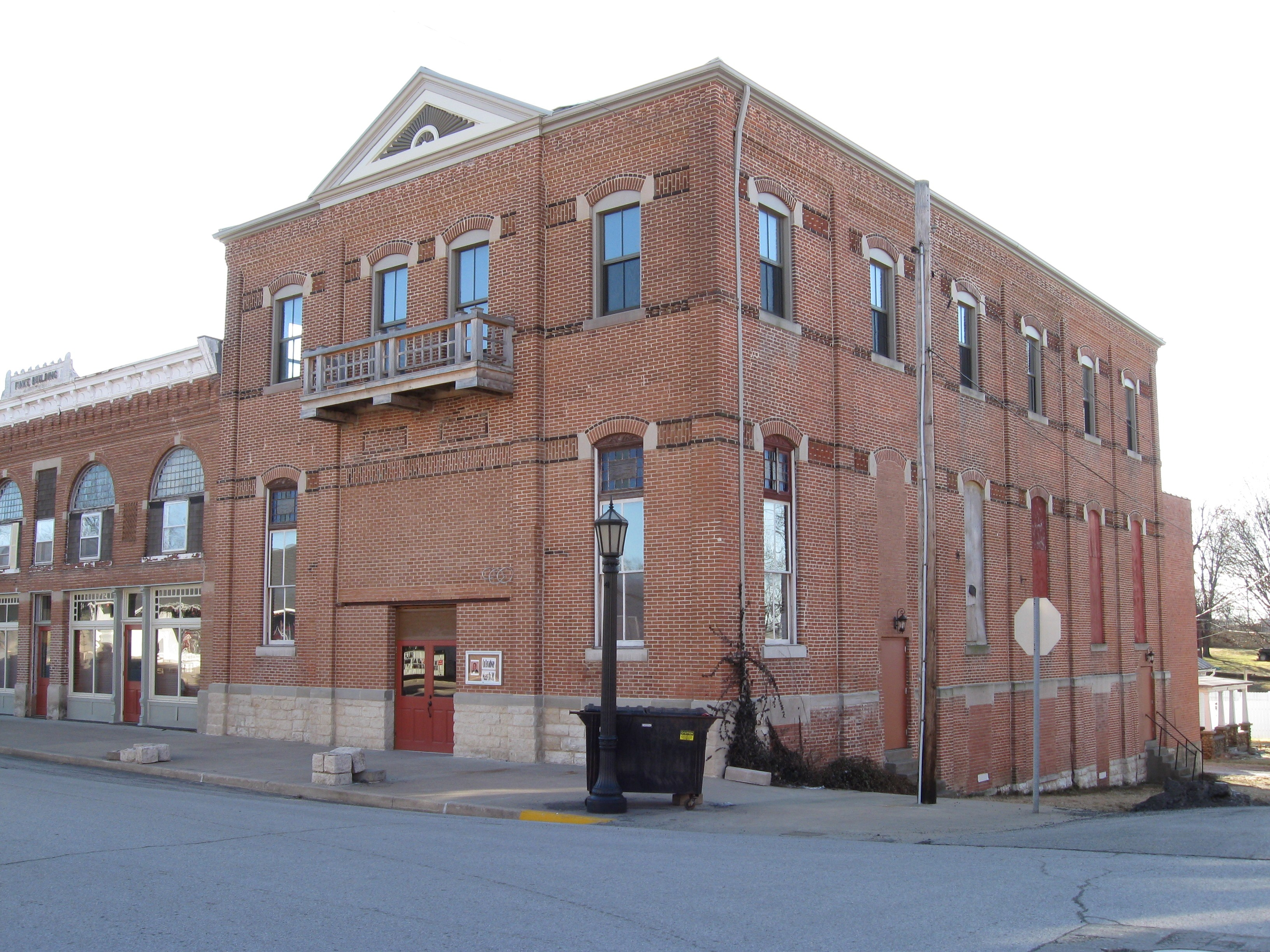 The Finke Opera House in California, Missouri. I touched up the photograph a bit to remove some of the utility wires.